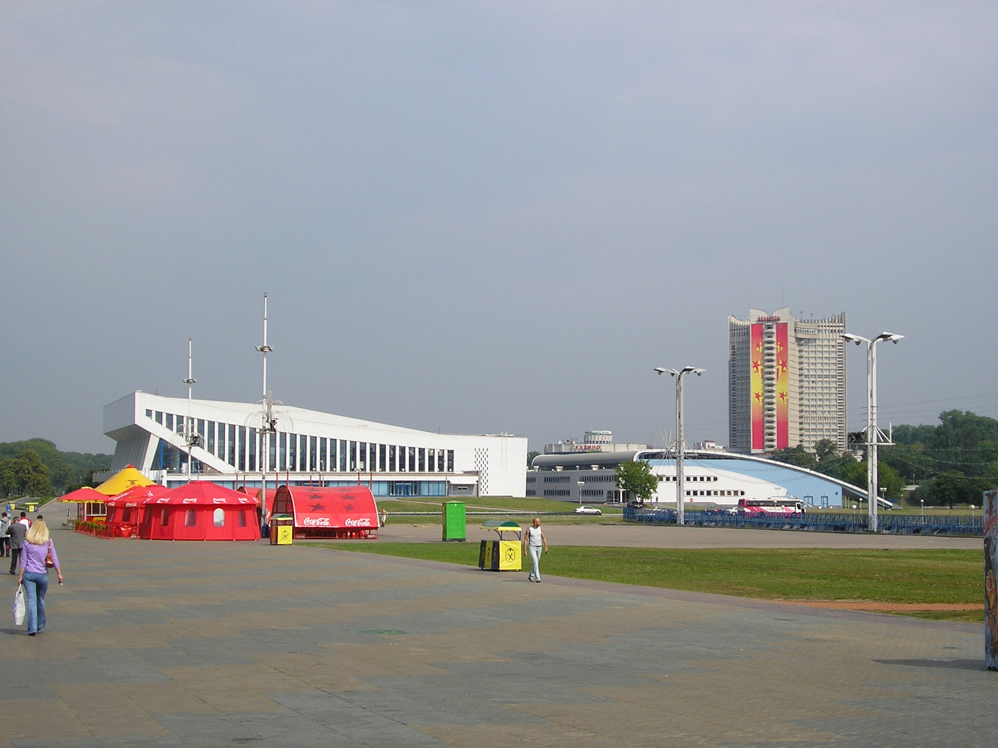 Minsk. Palace of Sports and surrounds. (Summer 2004, mikkalai)